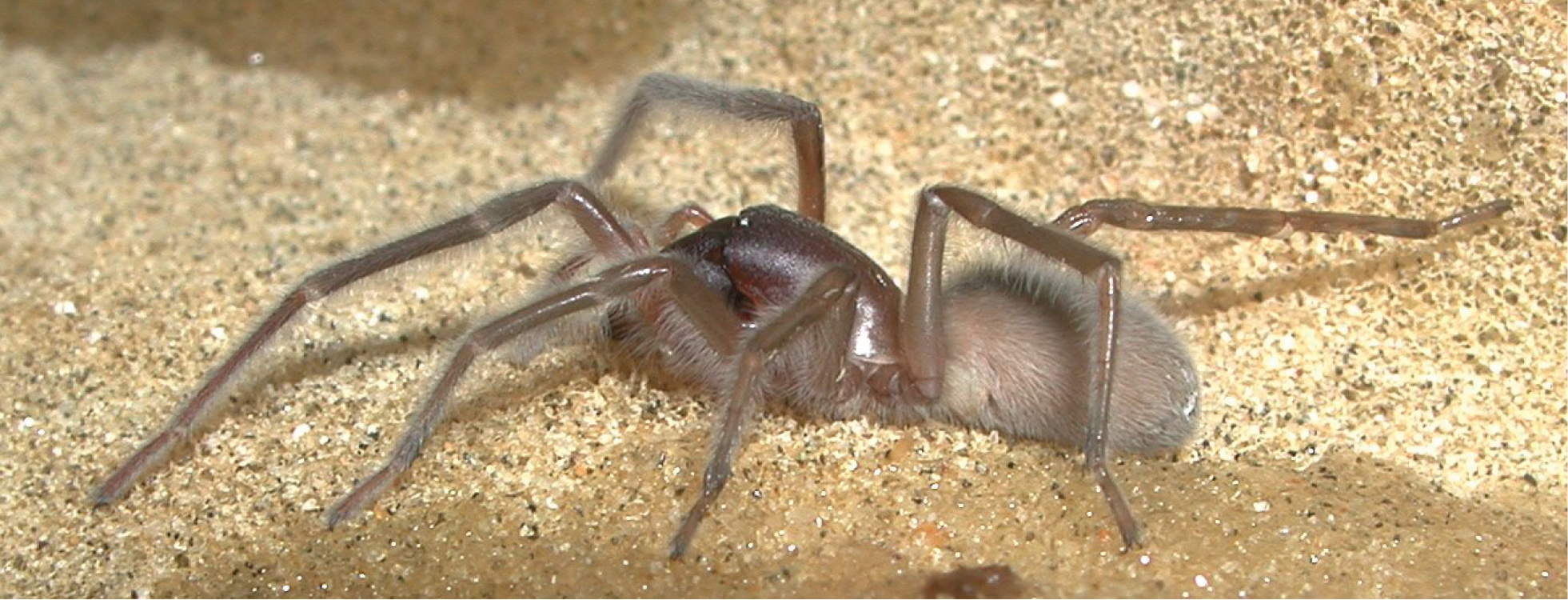 Life image of a female individual of the new species Desis bobmarleyi.